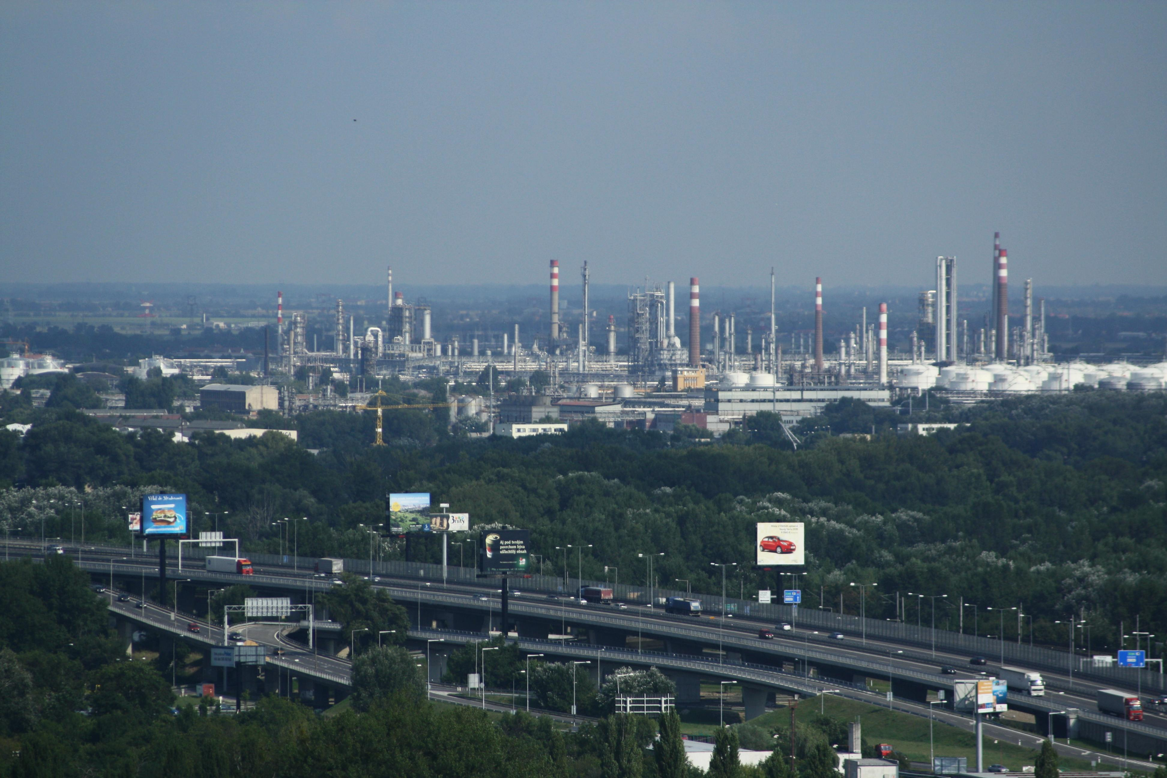 Refinery of Slovnaft in Bratislava, view from Nový most viewpoint.